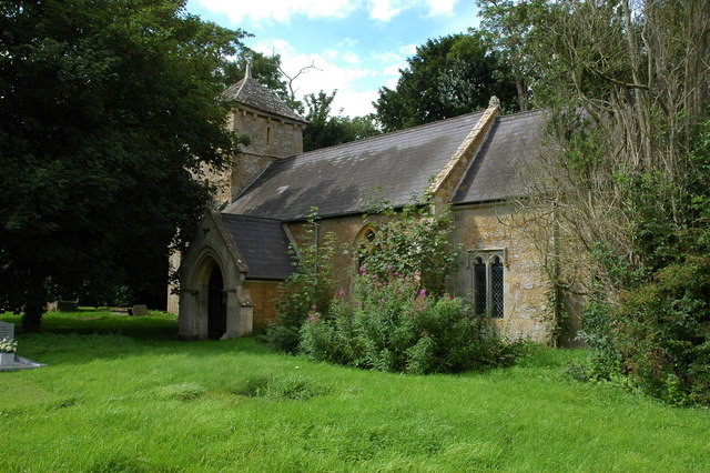 Tidmington parish church, Warwickshire, seen from the southeast